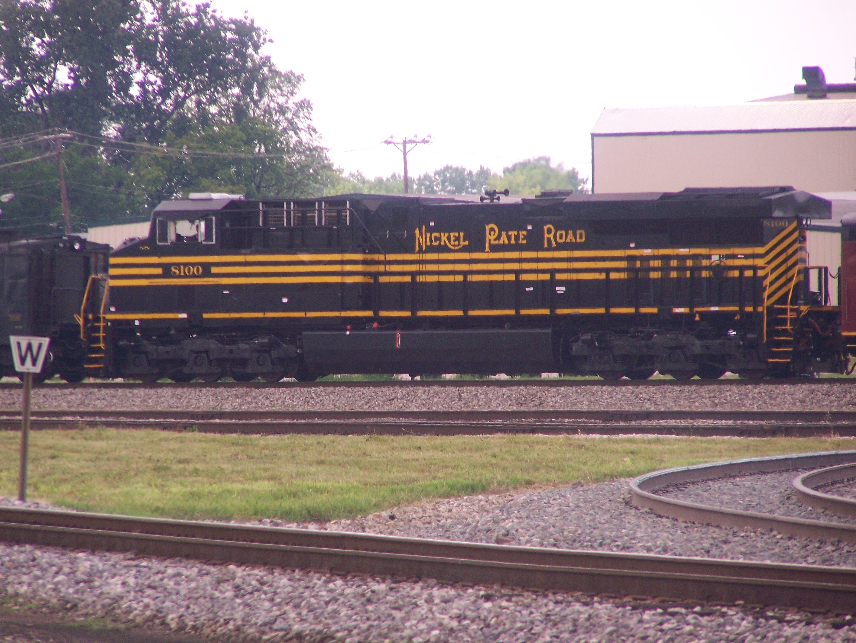 Taken by Bruce Bolinsky 07/29/12}# 8100 Painted in Nickel Plate livery for NS 30th anniversary